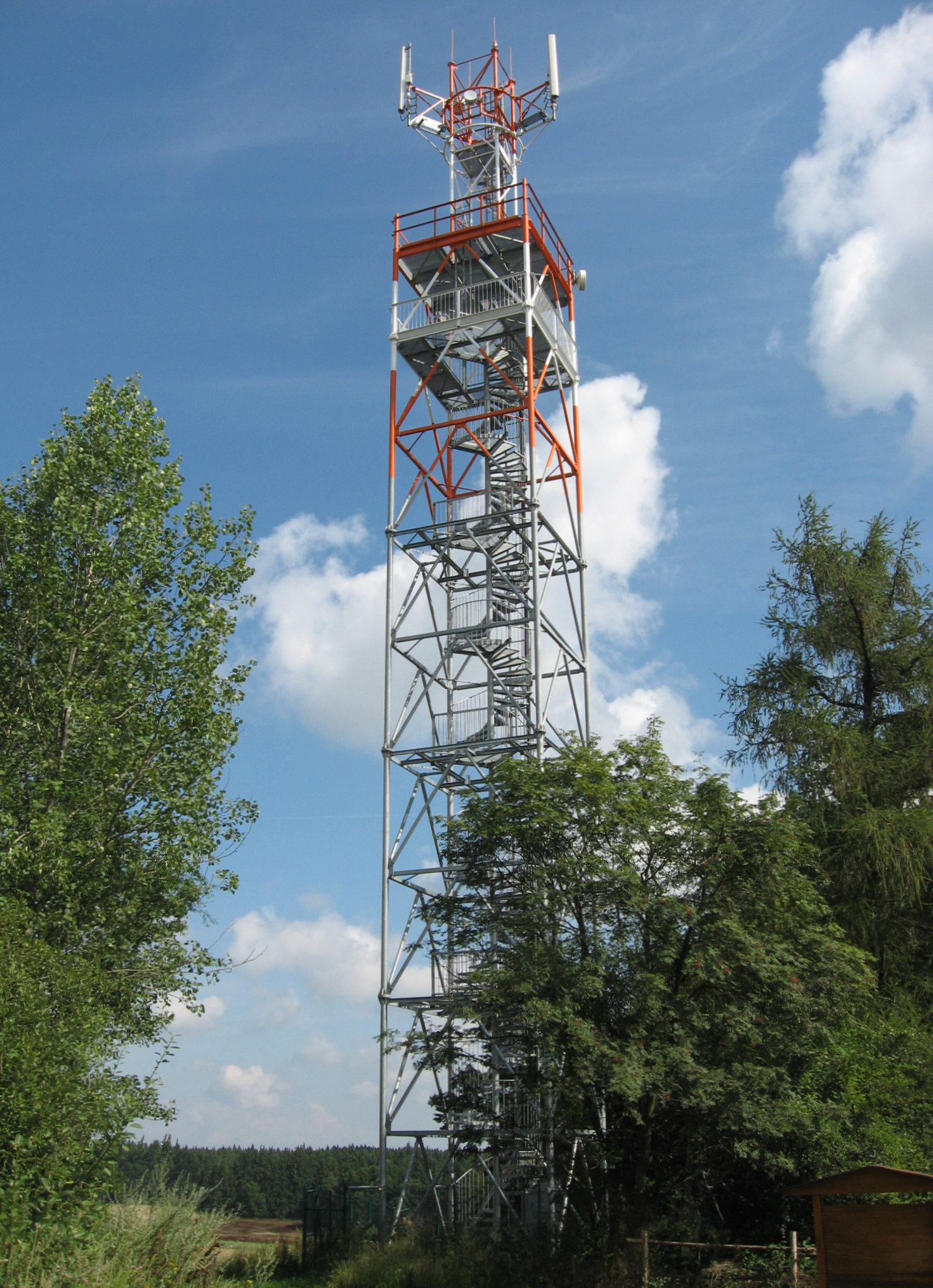 Observation tower Kožich by Libákovice, Plzeň-South District, Czech Republic